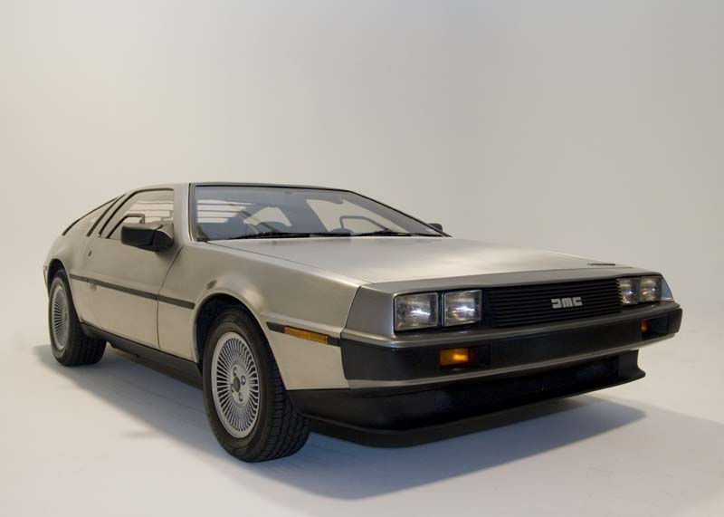 Delorean DMC-12 with doors closed Photographed by Kevin Abato